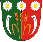 Coats of arms of Valašská Senice, Czech Republic